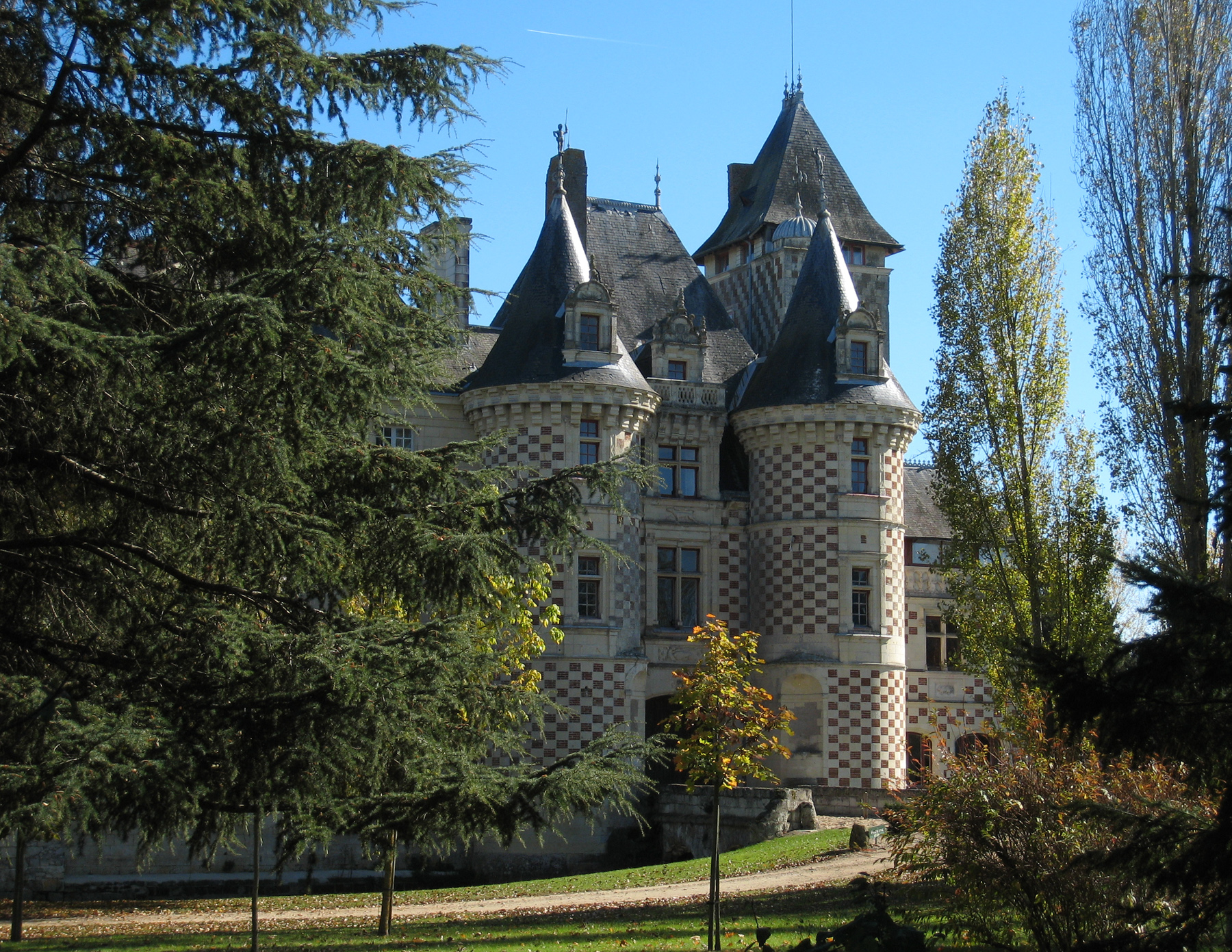 Castle Les Réaux near the village of Bourgueil in the Loire valley of France.